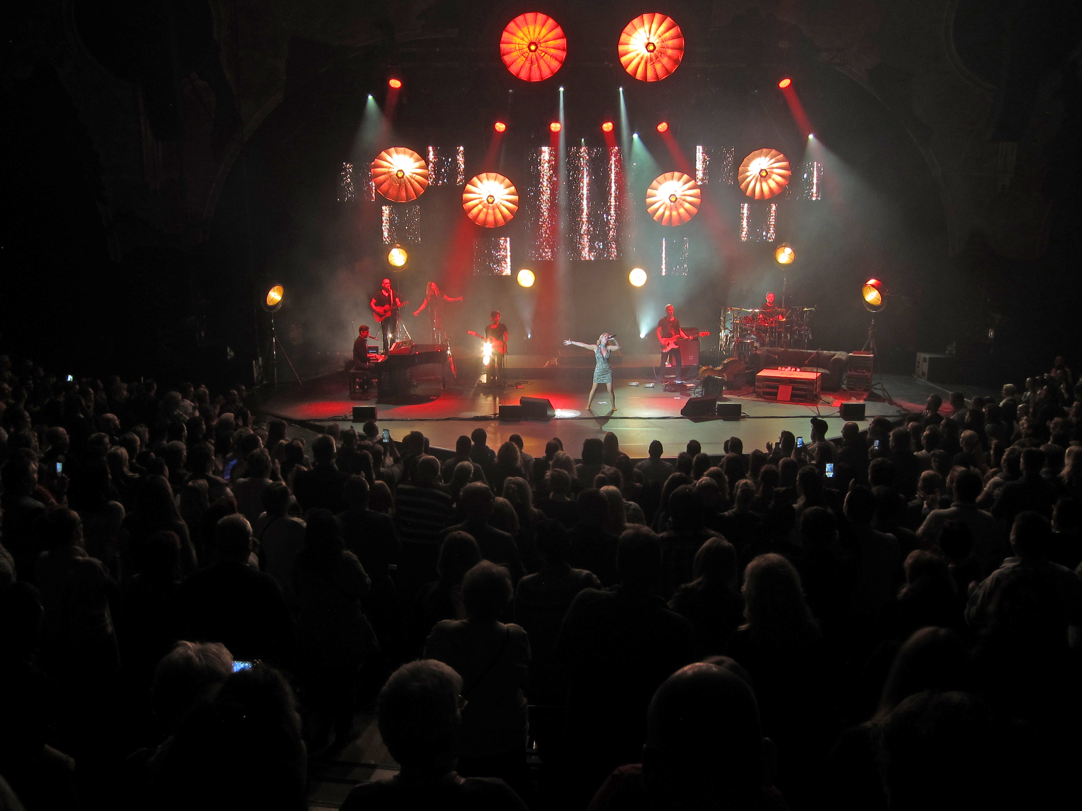 Michiel Hegener